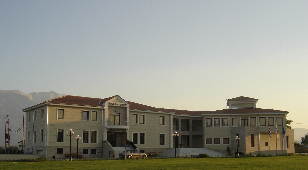 The seat of Dion Municipality (Northern Greece) in Kondariotissa, Pieria.